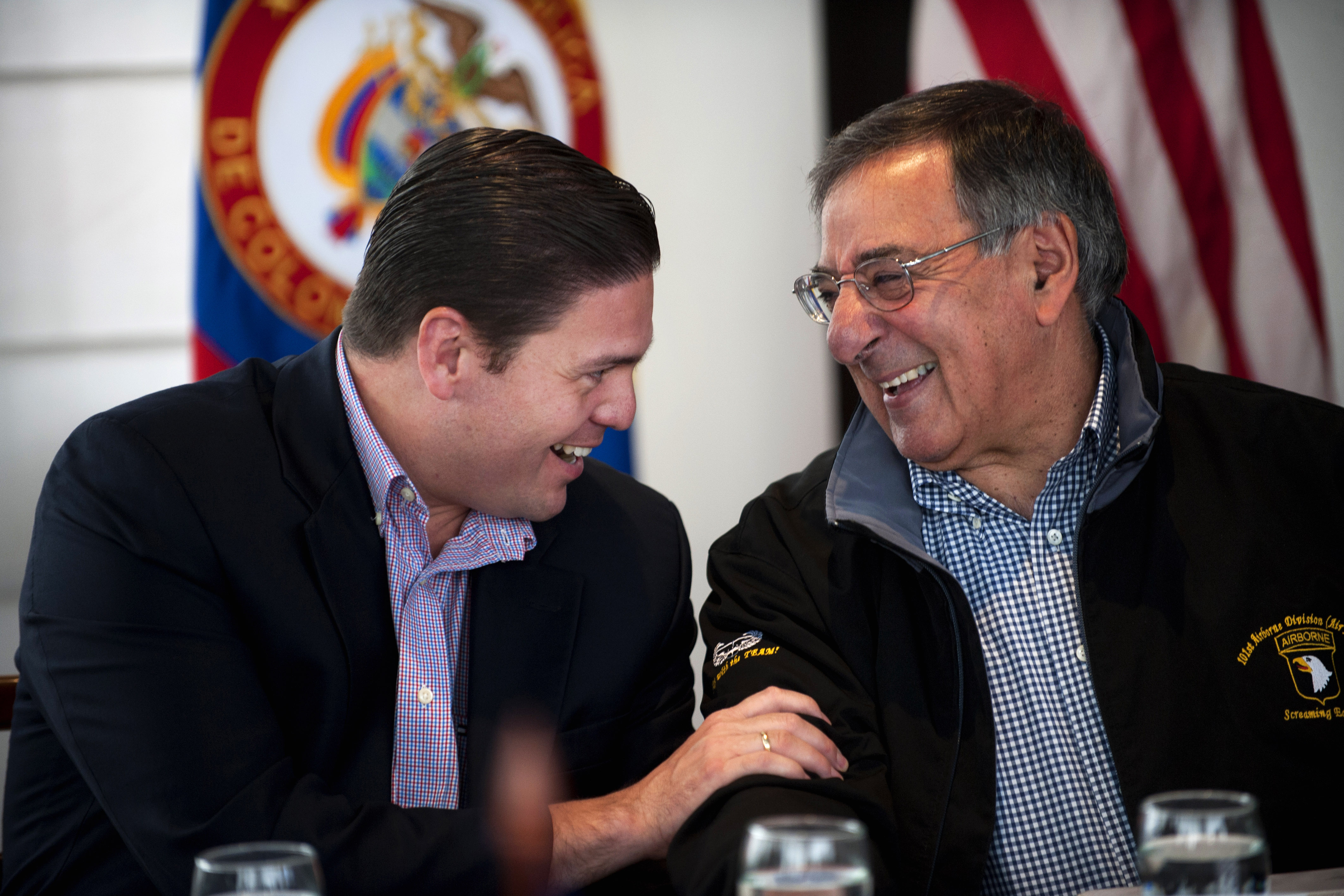 U.S. Defense Secretary Leon E. Panetta shares a laugh with Colombian Defense Minister Juan Carlos Pinzón Bueno in Bogota, Colombia, April 23, 2012. DOD photo by U.S. Navy Petty Officer 1st Class Chad J. McNeeley